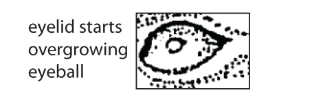 Standard Event System character depiction